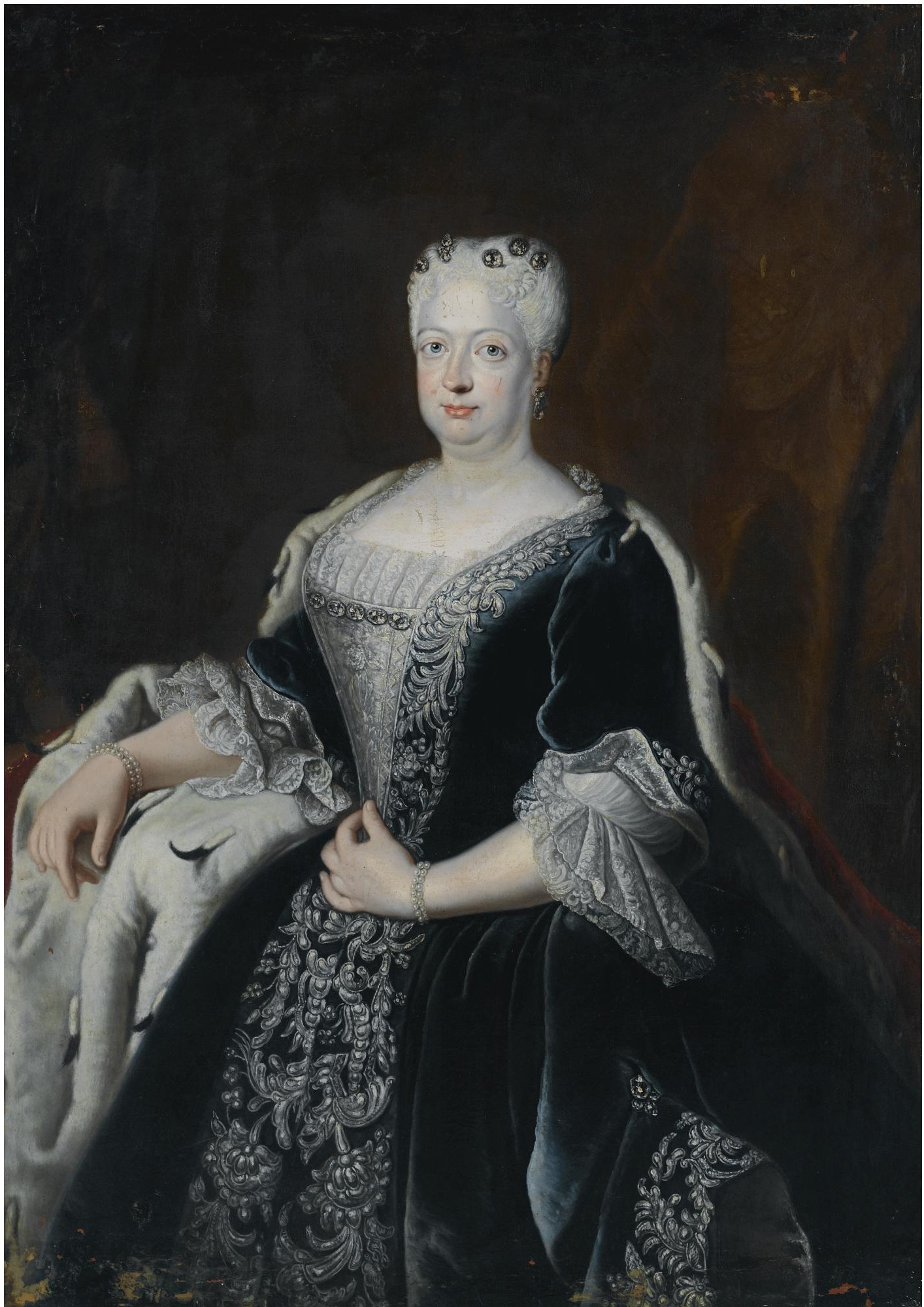 Portrait of Sophia Dorothea of Hanover (1687-1757), Queen of Prussia